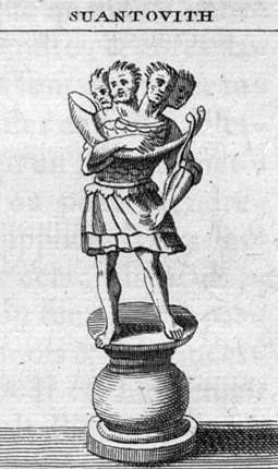 Svetovid